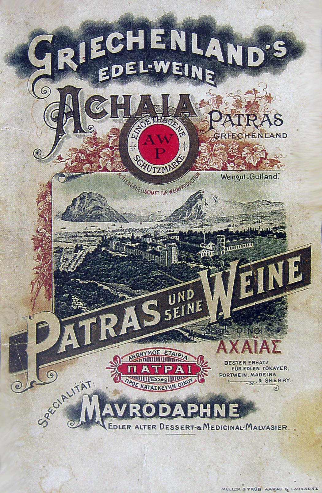 German advertising for Mavrodaphne wine from Patras